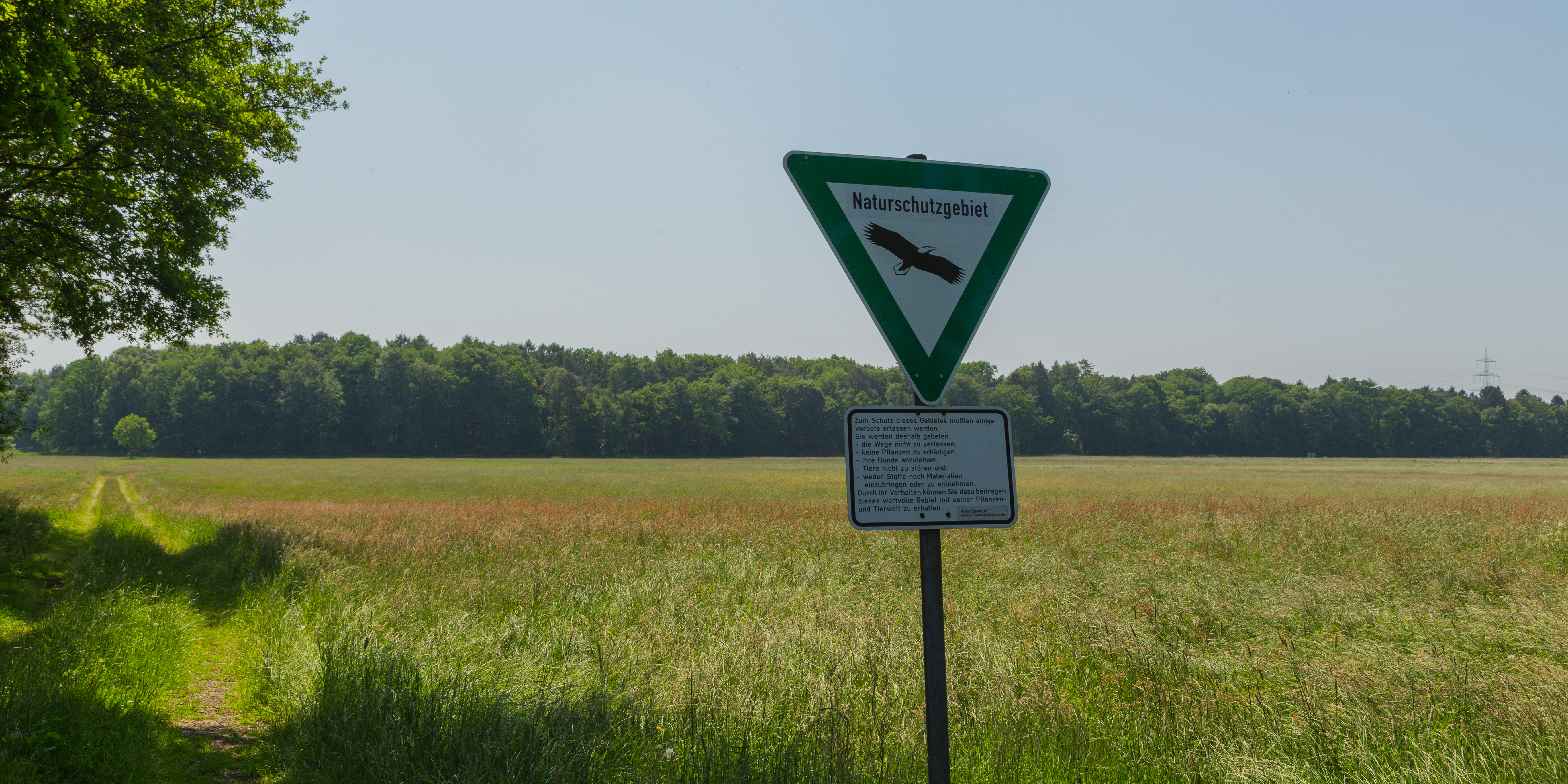 The nature reserve „Wet Meadows“ (Naturschutzgebiet „Dieckwiesen“) in Wersen, district of Lotte, Kreis Steinfurt, North Rhine-Westphalia, Germany.